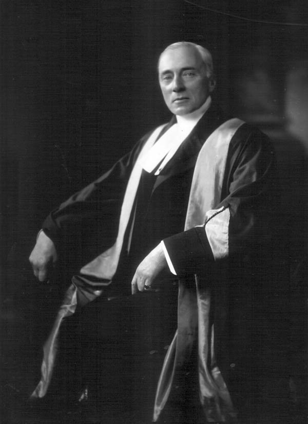 Photographic portrait of Rt. Rev. Alfred Edward John Rawlinson (1884-1960), Bishop of Derby (1936-59); Assistant Chaplain and Divinity Lecturer at Corpus Christi College, Oxford (1920-29).